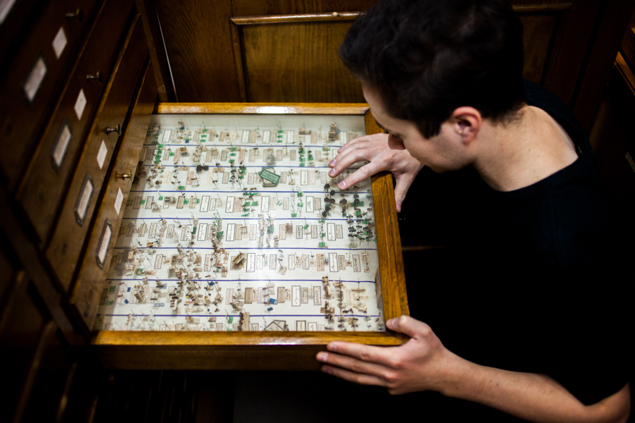 Entomologist at work in the Hymenoptera collection. Institute of Systematics and Evolution of Animals Polish Academy of Sciences in Cracov